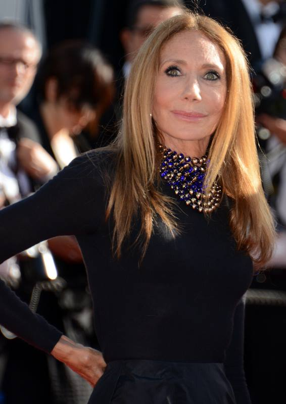 Marisa Berenson at the Cannes Film Festival